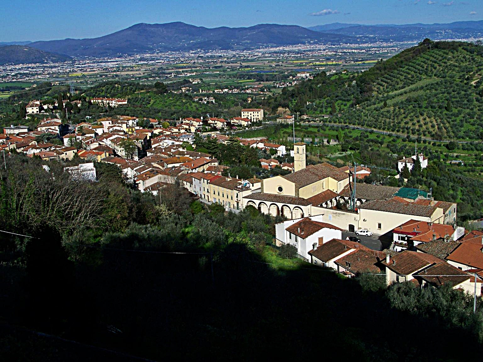 view of Carmignano from the fortress